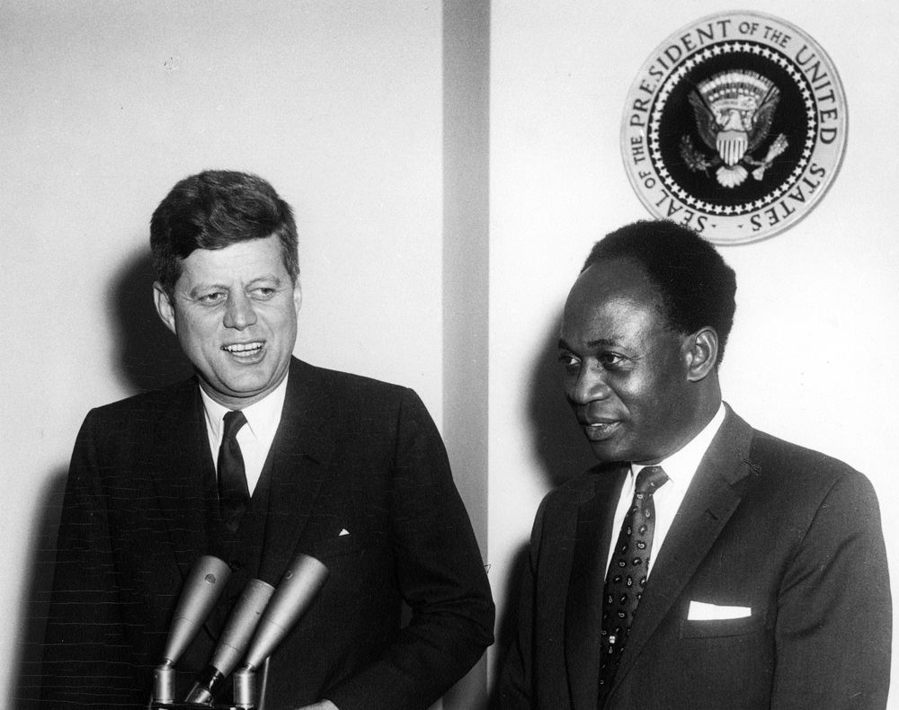 President John F. Kennedy Meets with the President of the Republic of Ghana, Osagyefo Dr. Kwame Nkrumah